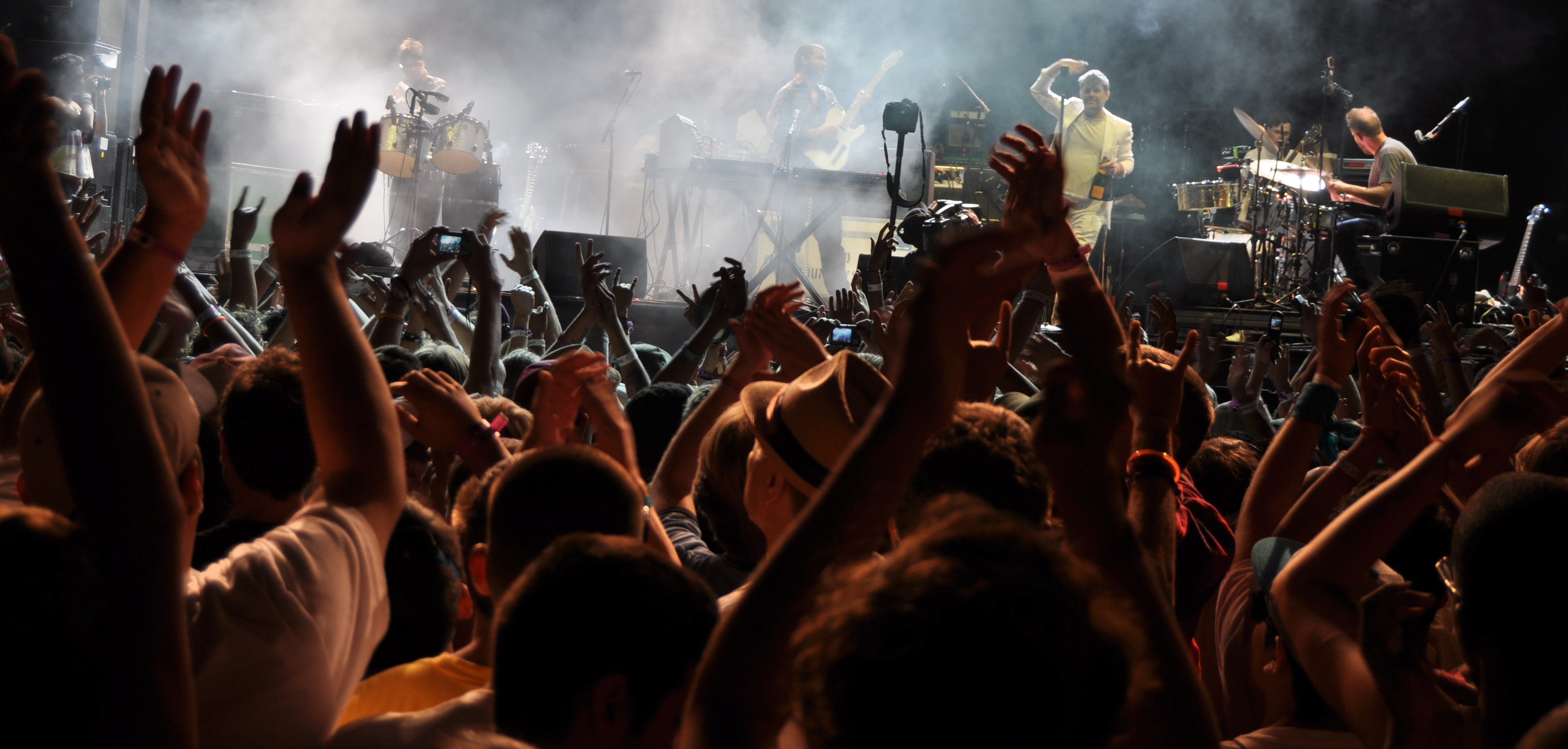 lowercase Flickr Tags: Coachella Music Festival 2010 Main Stage LCD Soundsystem James Murphy Crowd Wave April 16 Indio California.